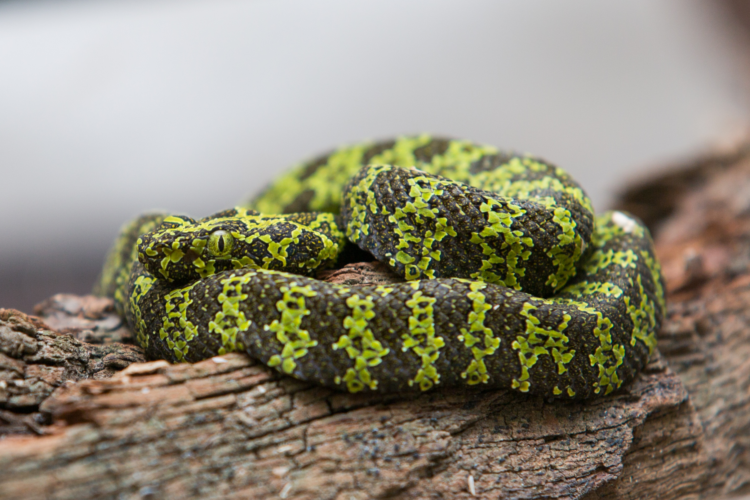 Mangshan pitviper in Prague Zoo